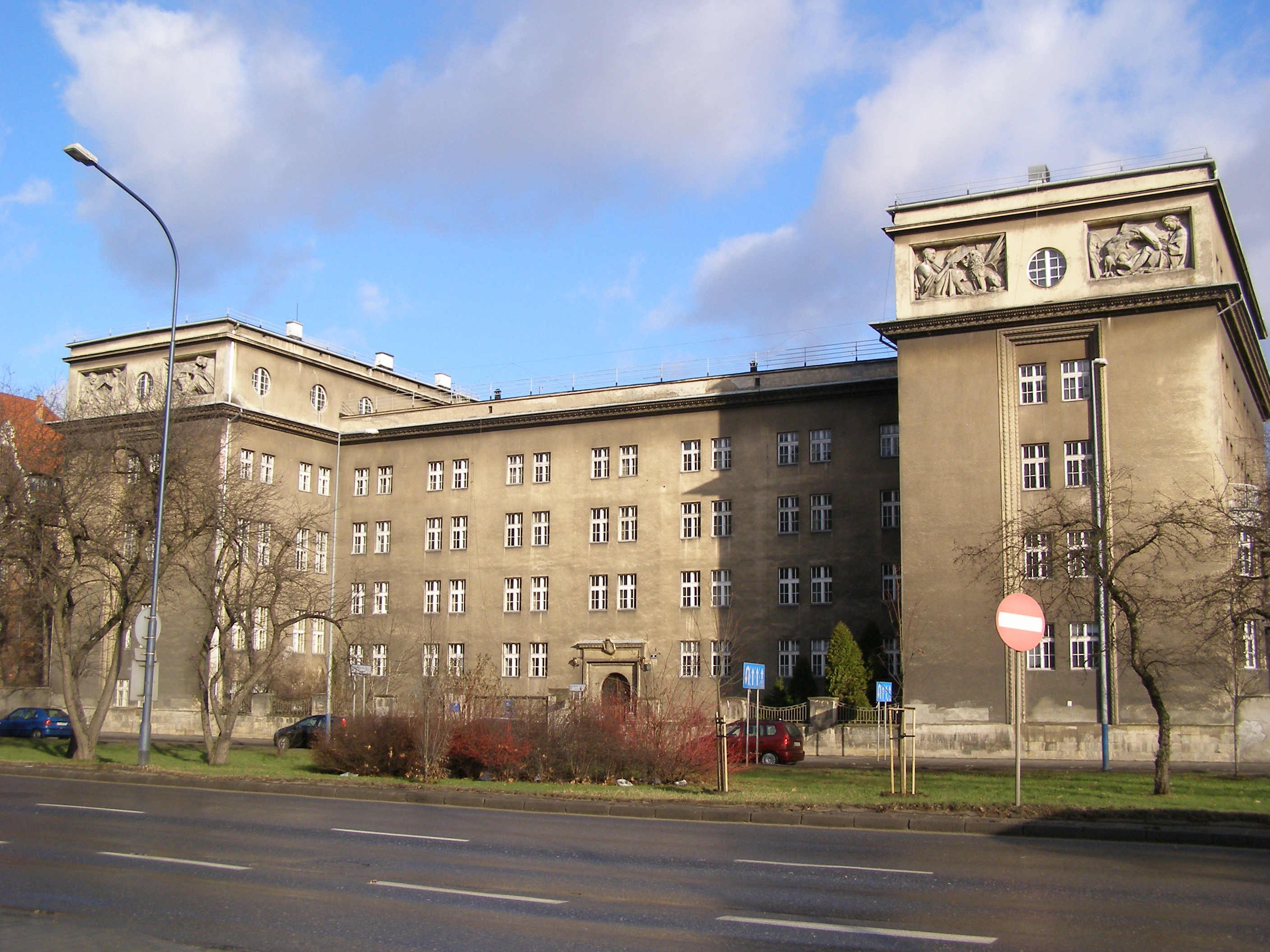 Kraków - building of the Jagiellonian University Institute of Psychology